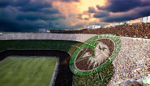 Best tifo ultras eagles